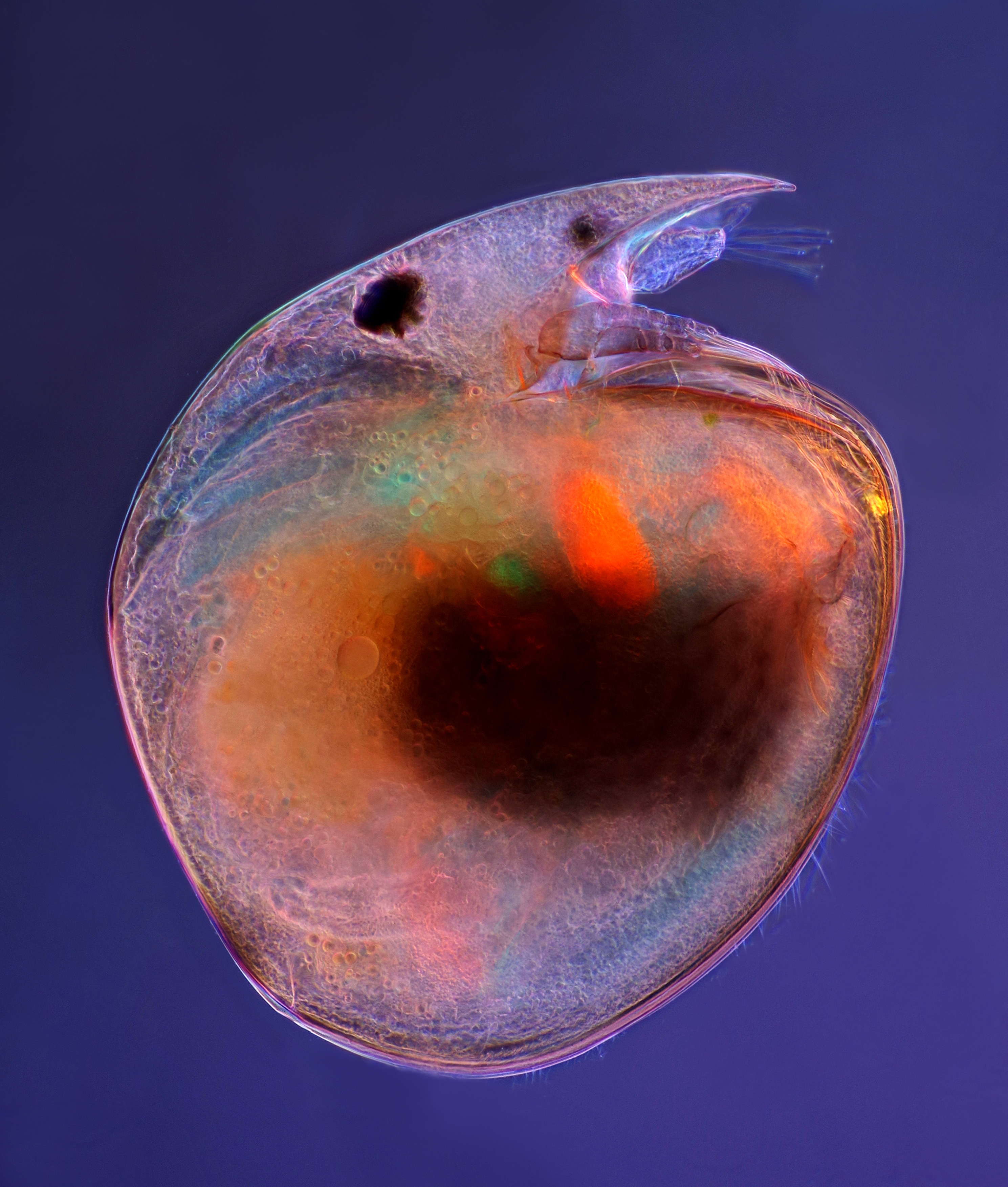 The image presents a tiny cladoceran from Chydorus genus. Magnification is 200X. Technique of the illumination - polarized light